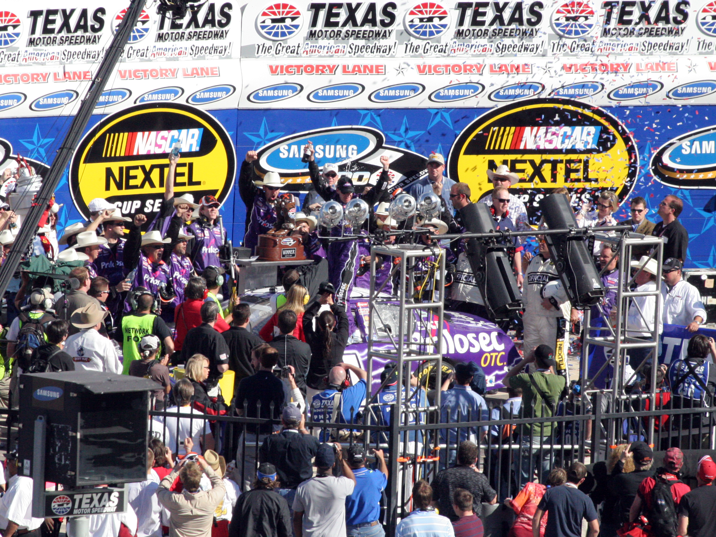 NASCAR driver Jeff Burton after winning at the Spring NEXTEL Cup race at Texas Motor Speedway